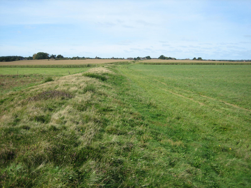 Historic wall "Krümwaal" on the island of Amrum in North Friesland (Germany). This is the photograph of an architectural monument. It is part of the list of cultural monuments of Nebel